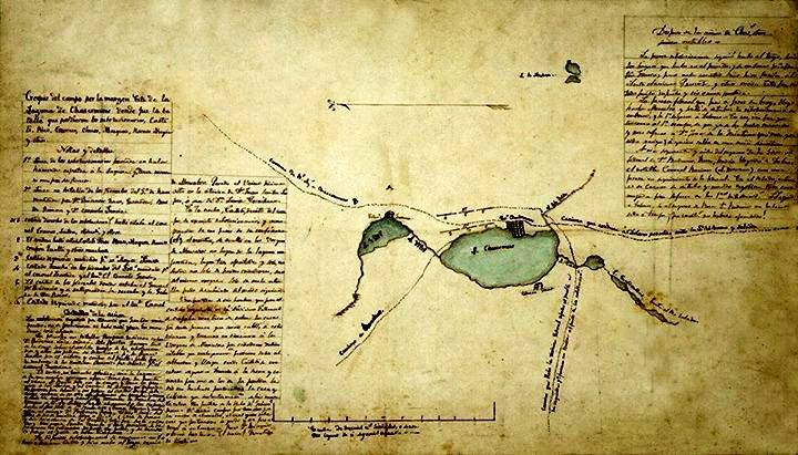 Sketch of the Battle of Chascomús, fought between loyalist forces of Governor Juan Manuel de Rosas and revolutionaries from the group called the "Freemen of the South" in 1839